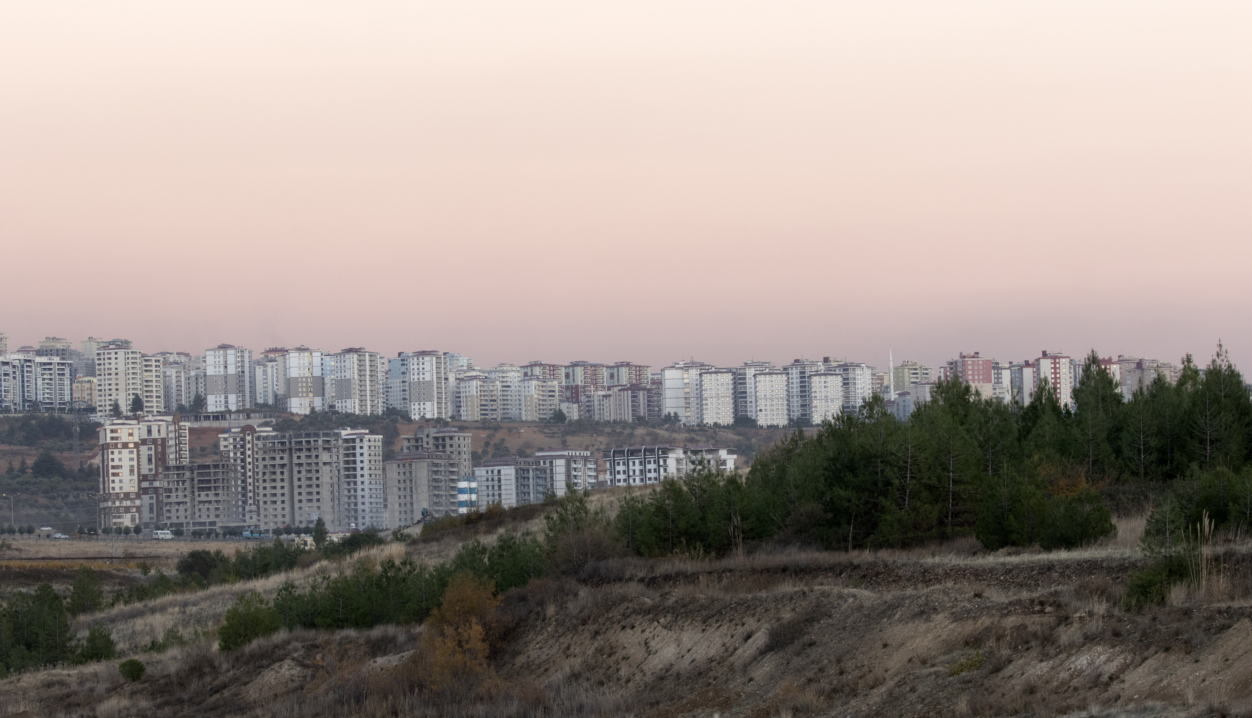 A view of the western quarters of Onikişubat - Kahramanmaraş, Turkey.